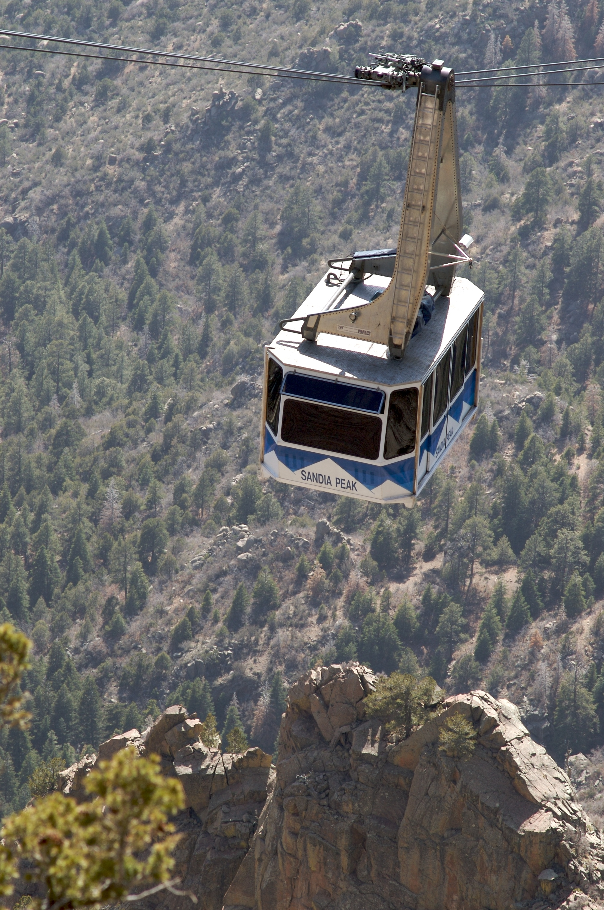 A Sandia Peak Tramway car ascending the mountain.